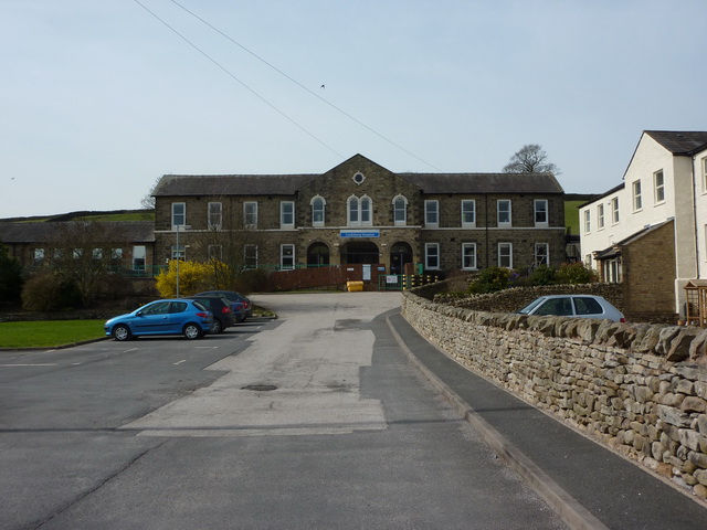 Castlebergh Hospital